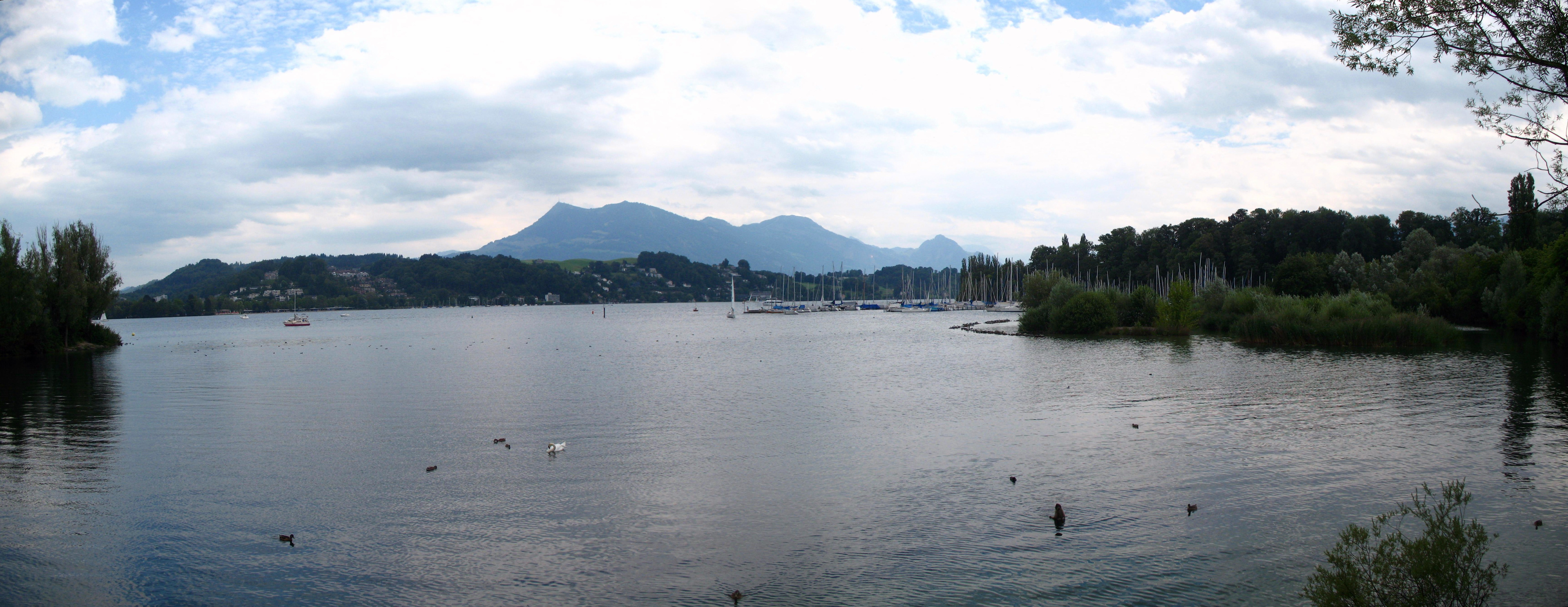 Lake Lucern (lit. Lake of the Four Forest Cantons), Luzern, Switzerland